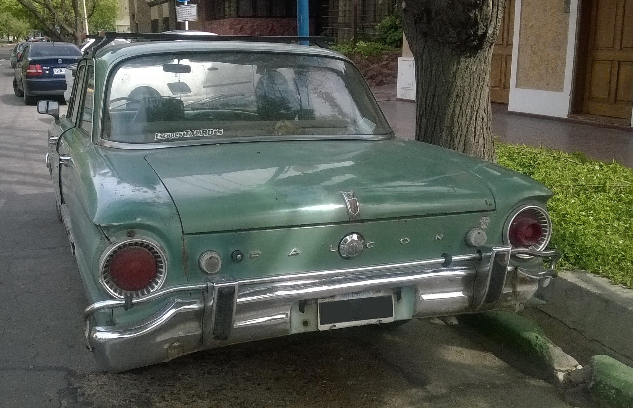 1962 Ford Falcon made in Argentina.